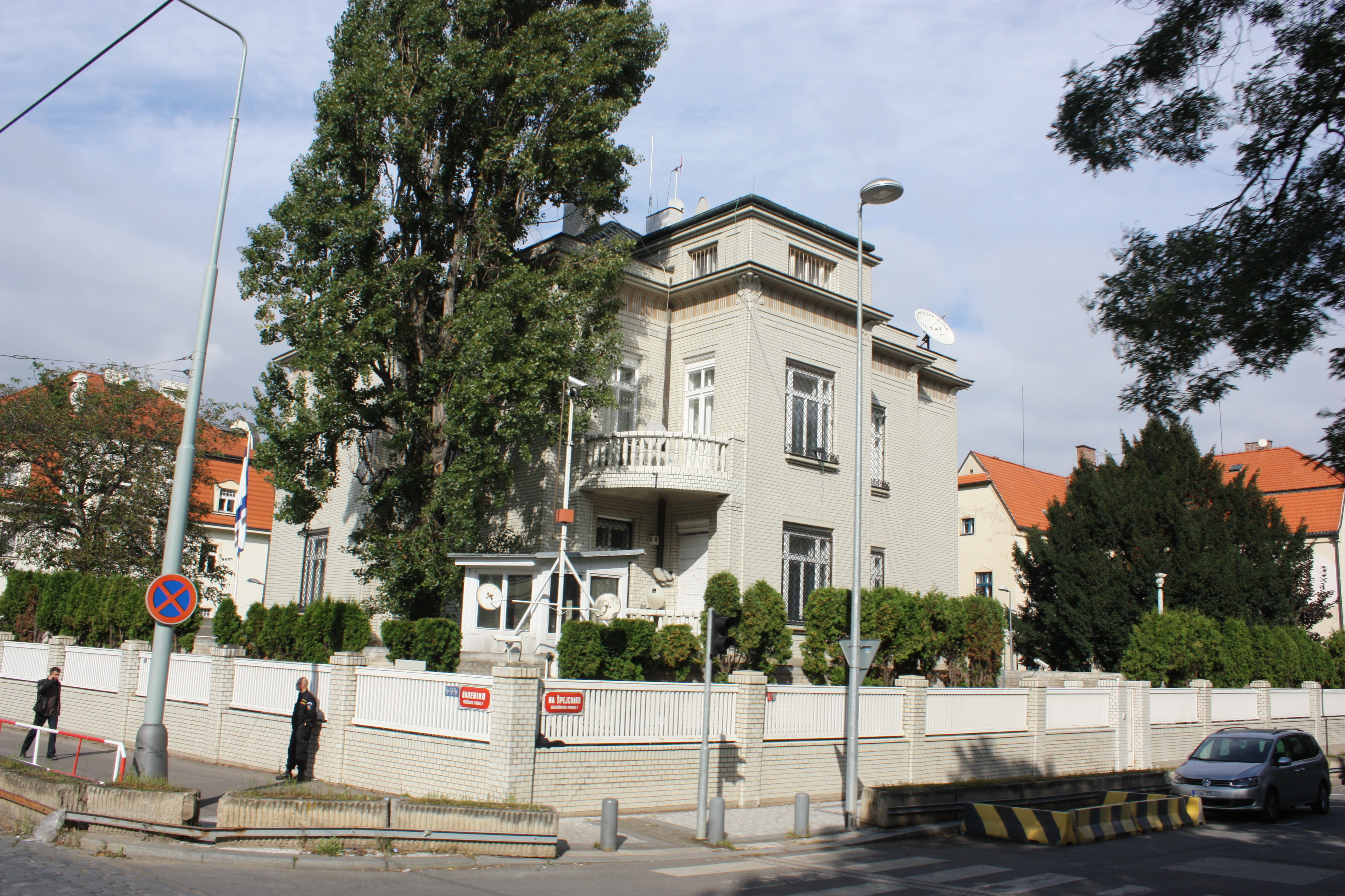 Israeli embassy in Prague - Letná, CzechiaPrague